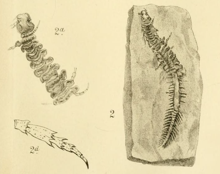 Archidesmus macnicoli, a prehistoric millipede from the Devonian of Fig. 2. Archidesmus macnicoli, From specimen presented to C. W. Peach by Walter MacNicol, Esq., Tealing, near Dundee. Body length 47 mm Locality — Carmyllie, near Arbroath, Forfars Fig. 2a. portion of above magnified Fig. 2d. Leg of fig. 2 magnified to show spines at the articulations.